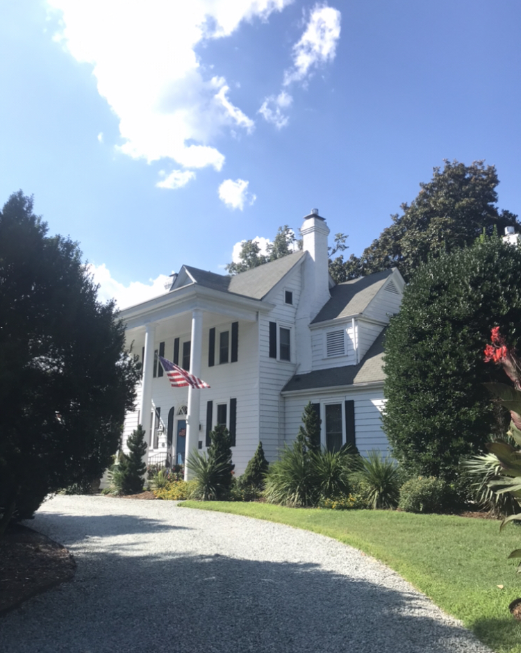 The Arrowhead Bed and Breakfast Inn, formerly the Lipscomb House, in Durham, North Carolina. The house was the center of a 2,000 acre cotton plantation.